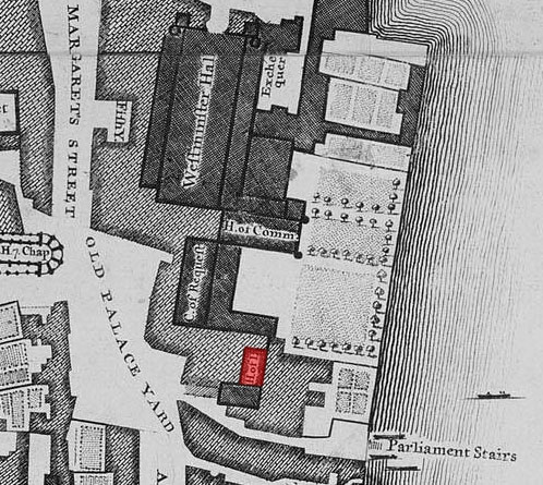 A close crop of Parliament, taken from John Rocque's 1746 map of London